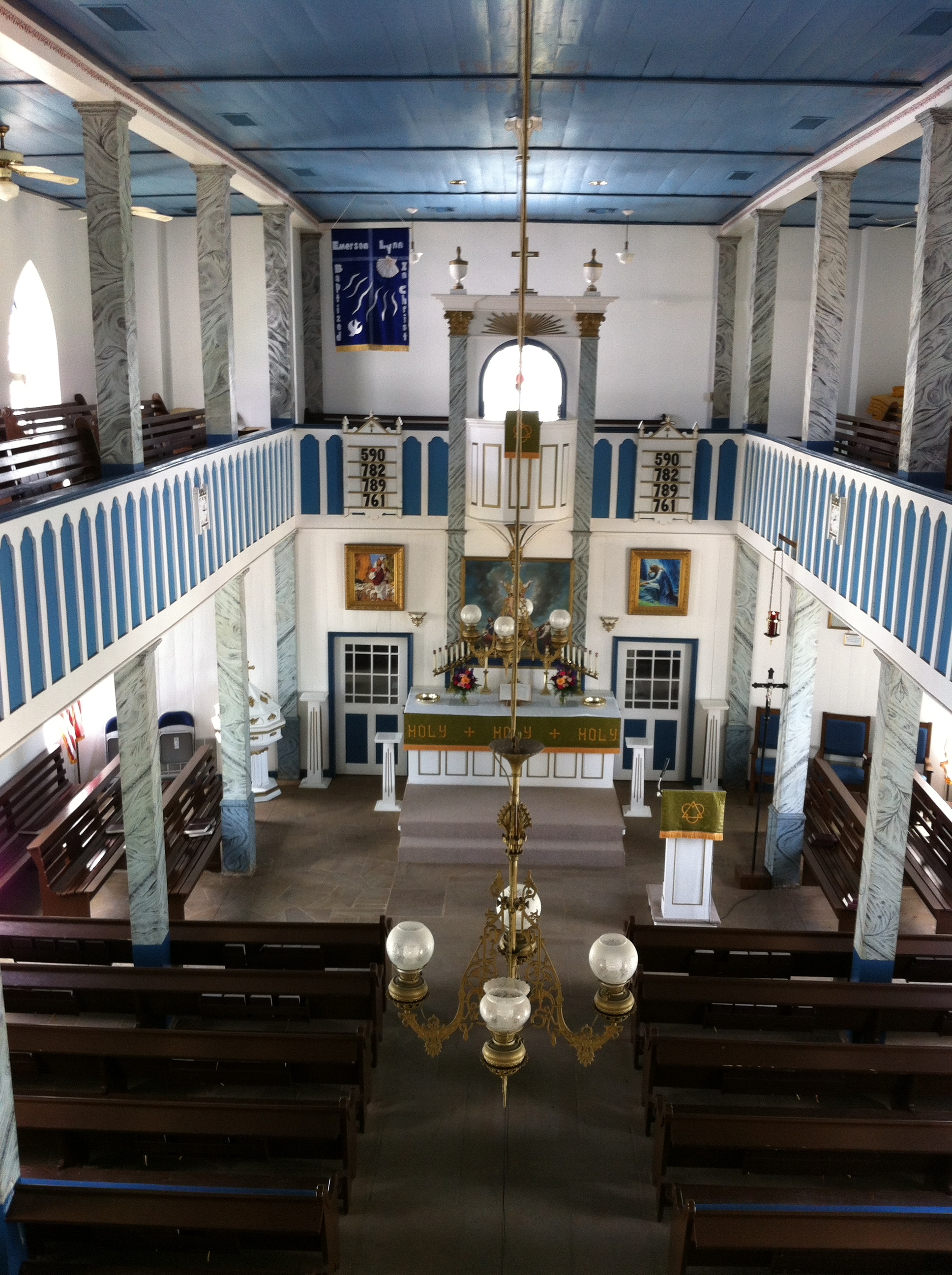 The interior of St. Paul Lutheran Church (Missouri Synod), in Serbin, TX. This church was built in 1869. It is still in regular use by the congregation. There are three rows of pews around the balcony, the pulpit is at the balcony level, and at the rear of the balcony is a pipe organ with a lever to pump the bellows.